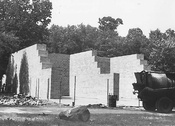 Palmer Park Handball court construction in 1950.